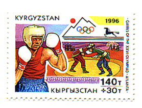 Stamp of Kyrgyzstan